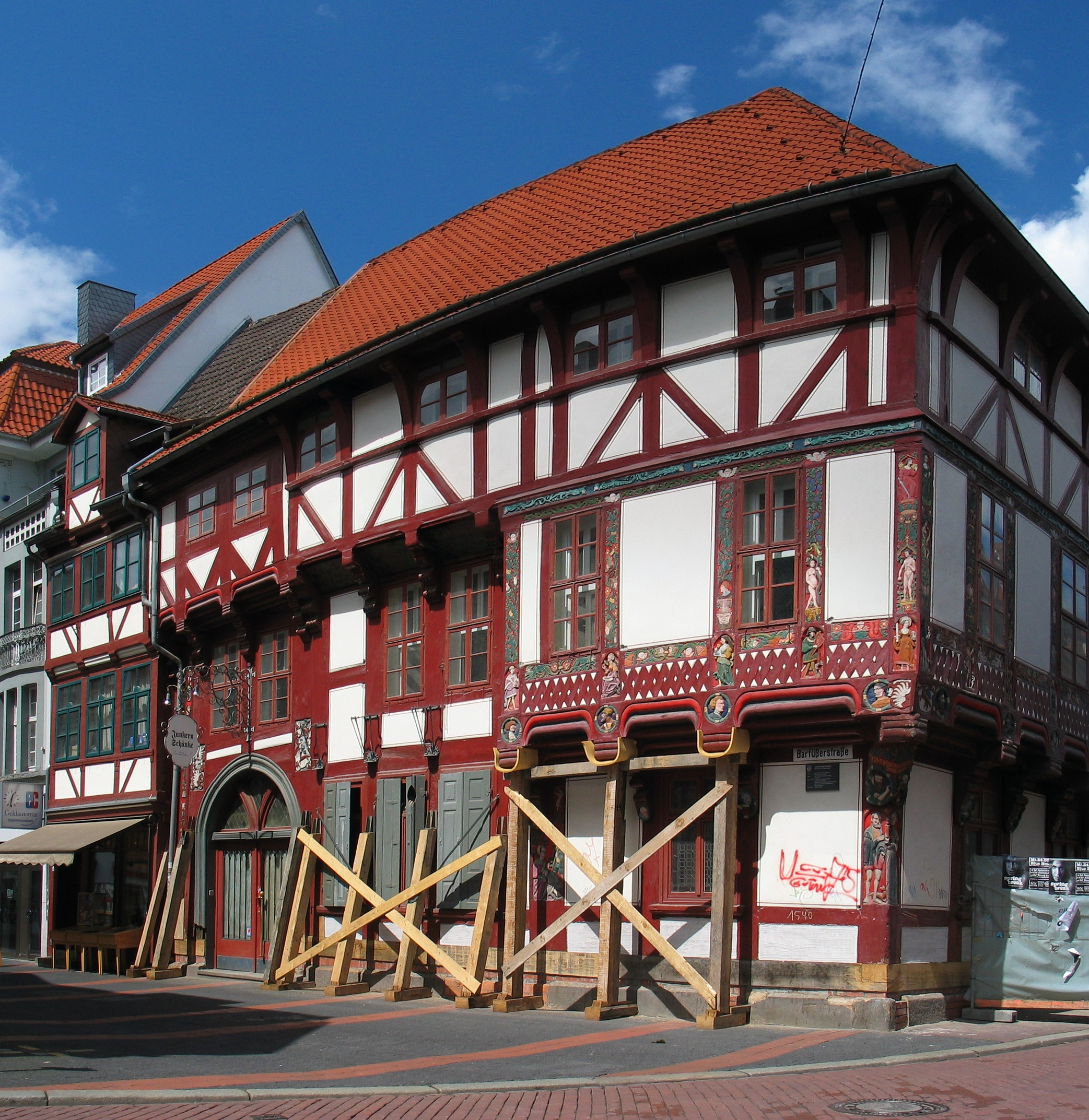 Junkernschänke, one of Göttingen's oldest restaurants, built in 1451 and remodeled in 1547/49. Now under heavy renovation.